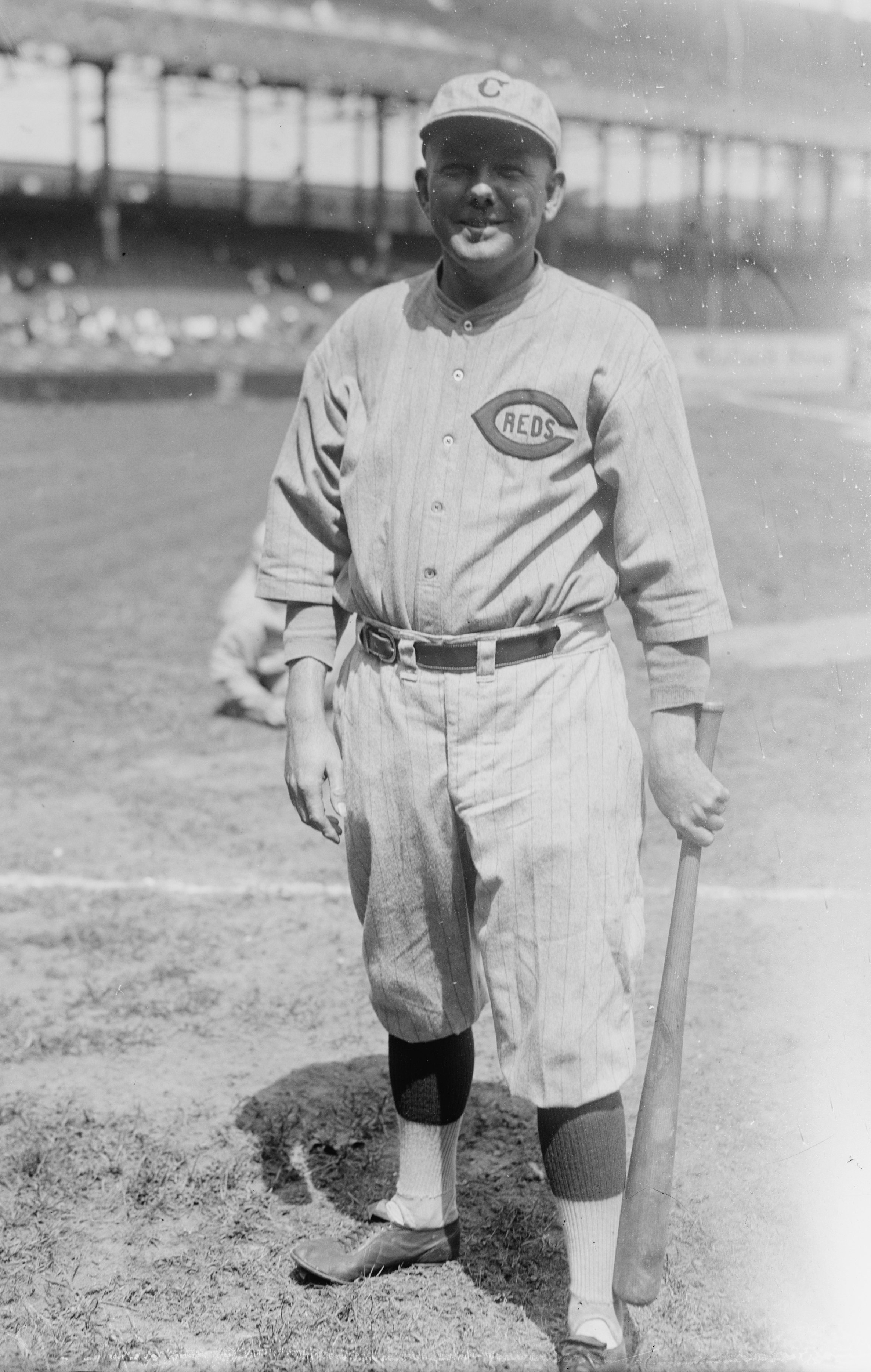 Title: Rube Benton, Cincinnati NL (baseball) Abstract/medium: 1 negative : glass ; 5 x 7 in. or smaller.